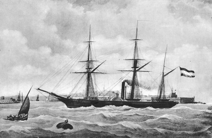 The paddle steamer Soembing. Captain Gerhardus Fabius was sent to Japan by the Dutch government to educate them in the modern art of navigation. October 5t, 1855 commissioner Jan Hendrik Donker Curtius of Dejima hands the Soembing over to the Japanese government on behalf of king Willem III. The ship is renamed Kanko Maru.